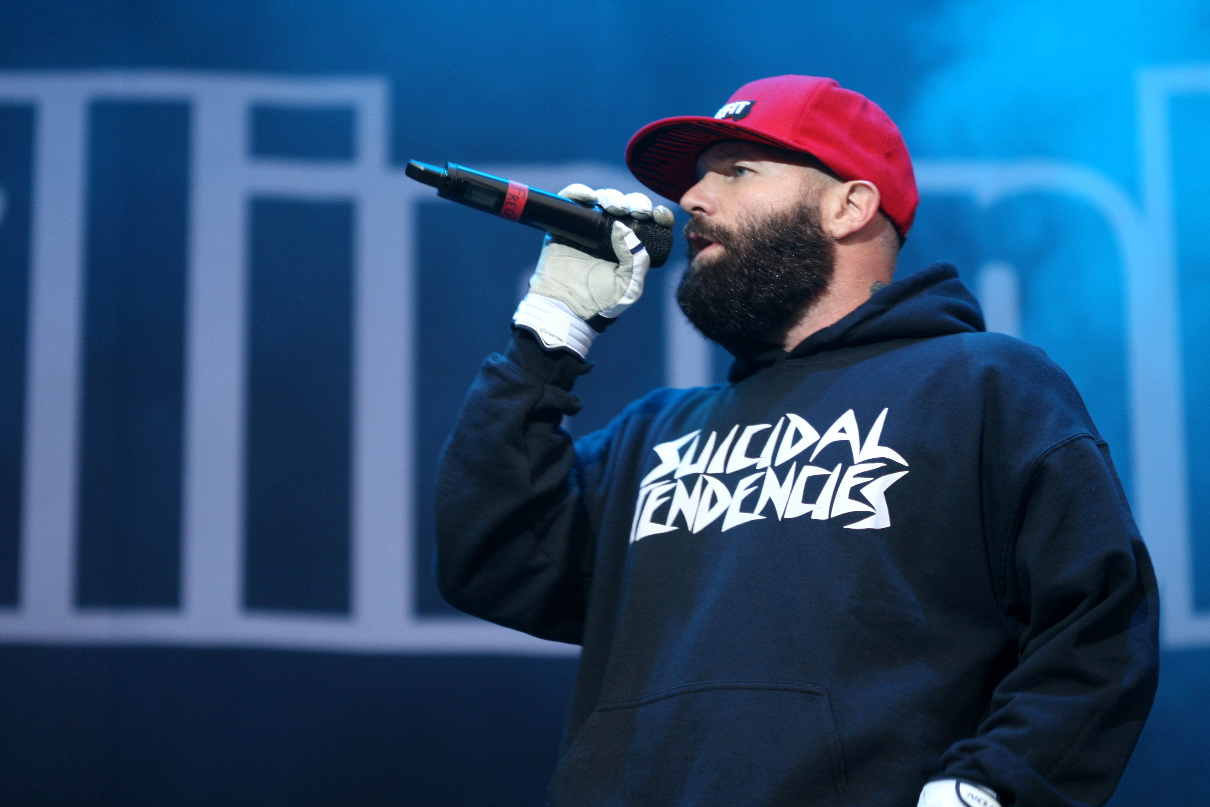 Fred Durst, singer of Limp Bizkit, on the Alterna Stage of Rock im Park-Festival 2013. Festivalsommer This photo was created with the support of donations to Wikimedia Deutschland in the context of the CPB project "Festival Summer".